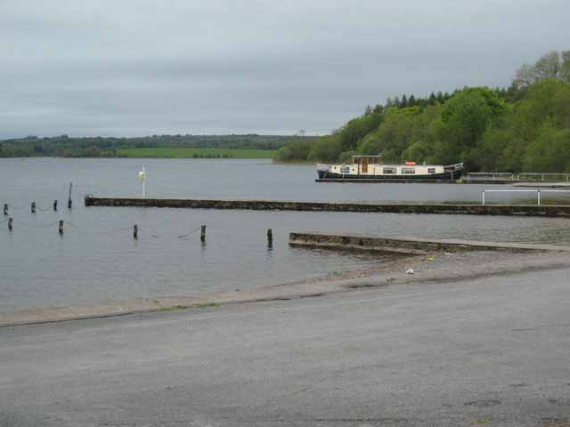 Jetties on Lough Key At a picnic spot on the west side of the Lough.